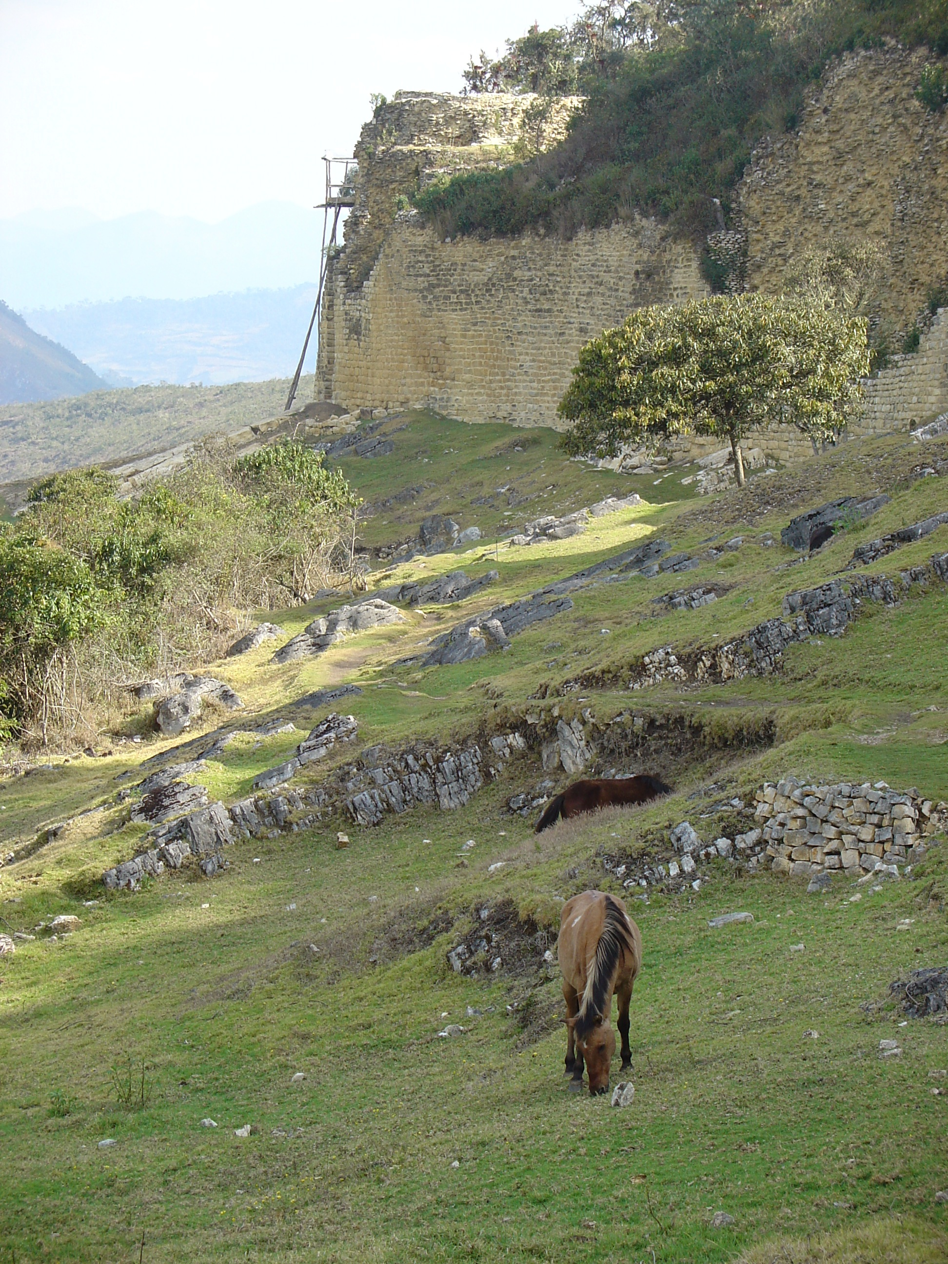 Kuelap wall, Peru